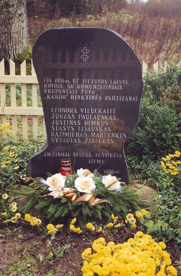 Nausėdai, Kretinga district, LithuaniaLietuvių: Nausėdų partizanų paminklas, Kretingos rajonas, Lietuva